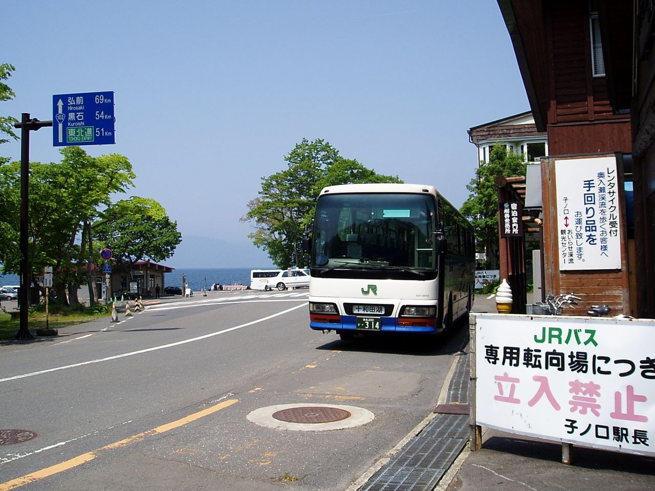 JR Bus Tohoku 641-9913 "Towada-hoku Line" Isuzu KC-LV782R1 at Nenokuchi Sta.(Towada City)